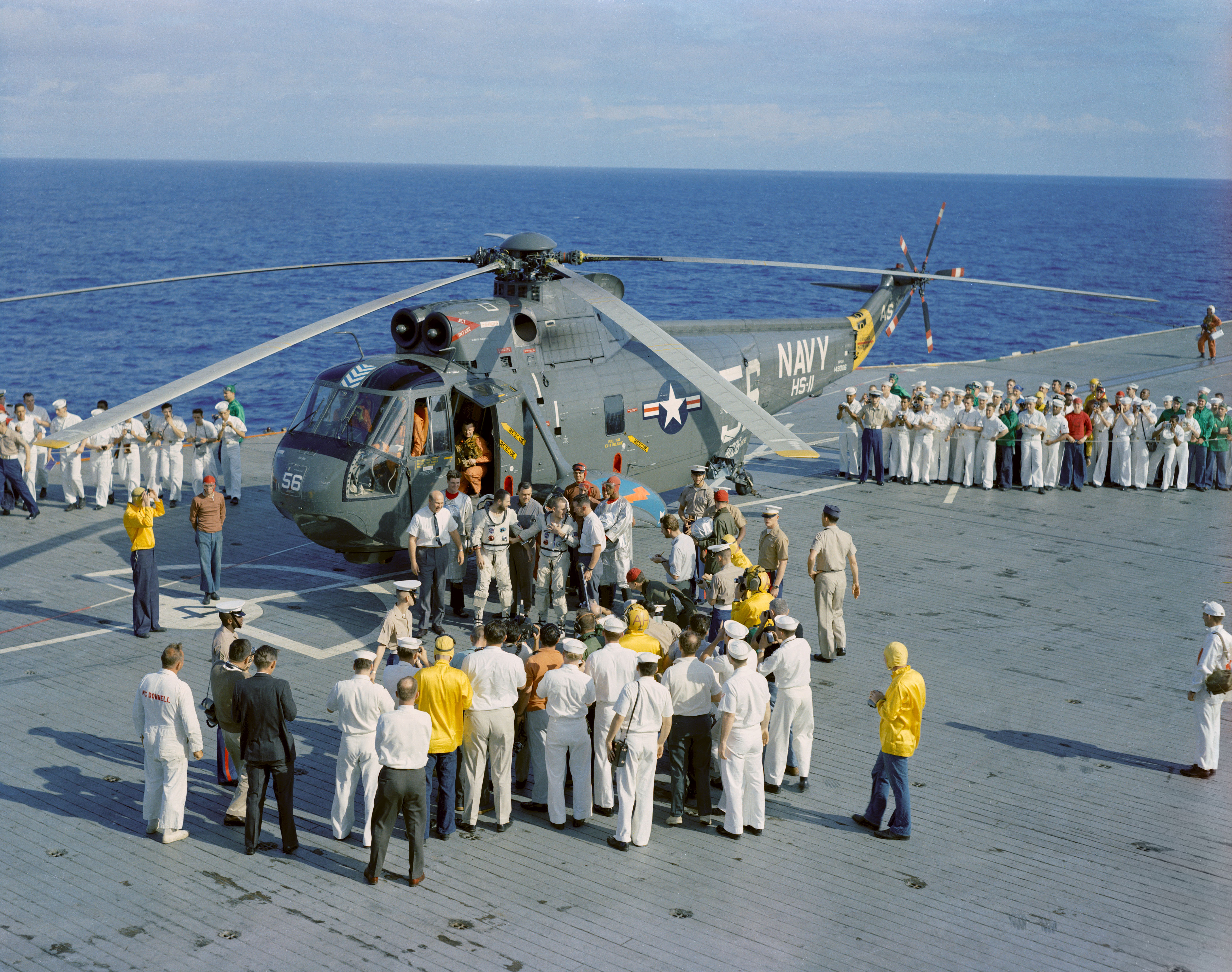 The crew of the Gemini-7 spaceflight, astronauts Frank Borman, command pilot, and James A. Lovell Jr., pilot, arrive aboard the aircraft carrier USS Wasp (CVS 18). The astronauts were picked up from the ocean, following successful splashdown, by recovery helicopter and flown to the carrier to begin postflight medical and technical debriefings. Photo credit: NASA